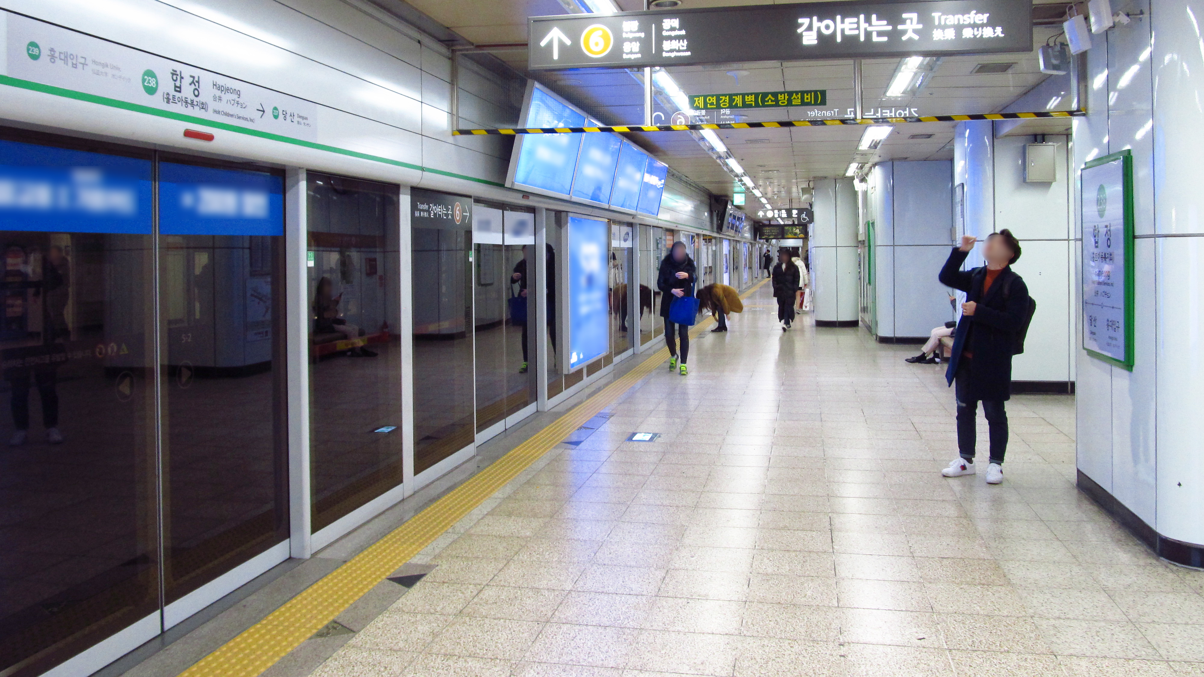 The platform at Hapjeong Station on Seoul Subway Line 2 in Mapo-gu, Seoul, Republic of Korea(South Korea)